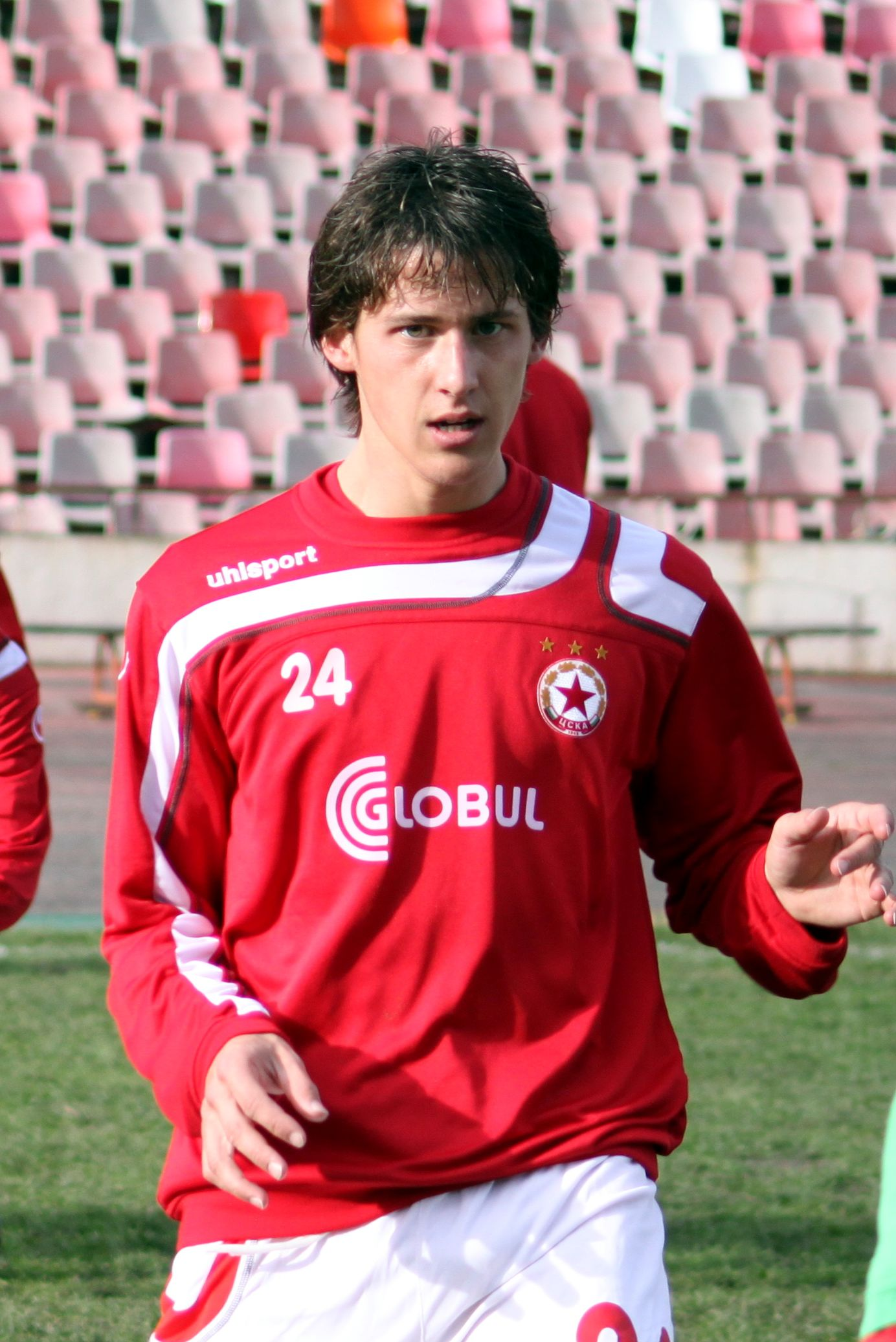 Aleksandar Tonev (Bulgarian: Александър Тонев) (born 2 February 1990) is a Bulgarian footballer, currently playing for CSKA Sofia[1]. He is offensive midfielder and winger, but is sometimes employed in a secondary role as a striker.